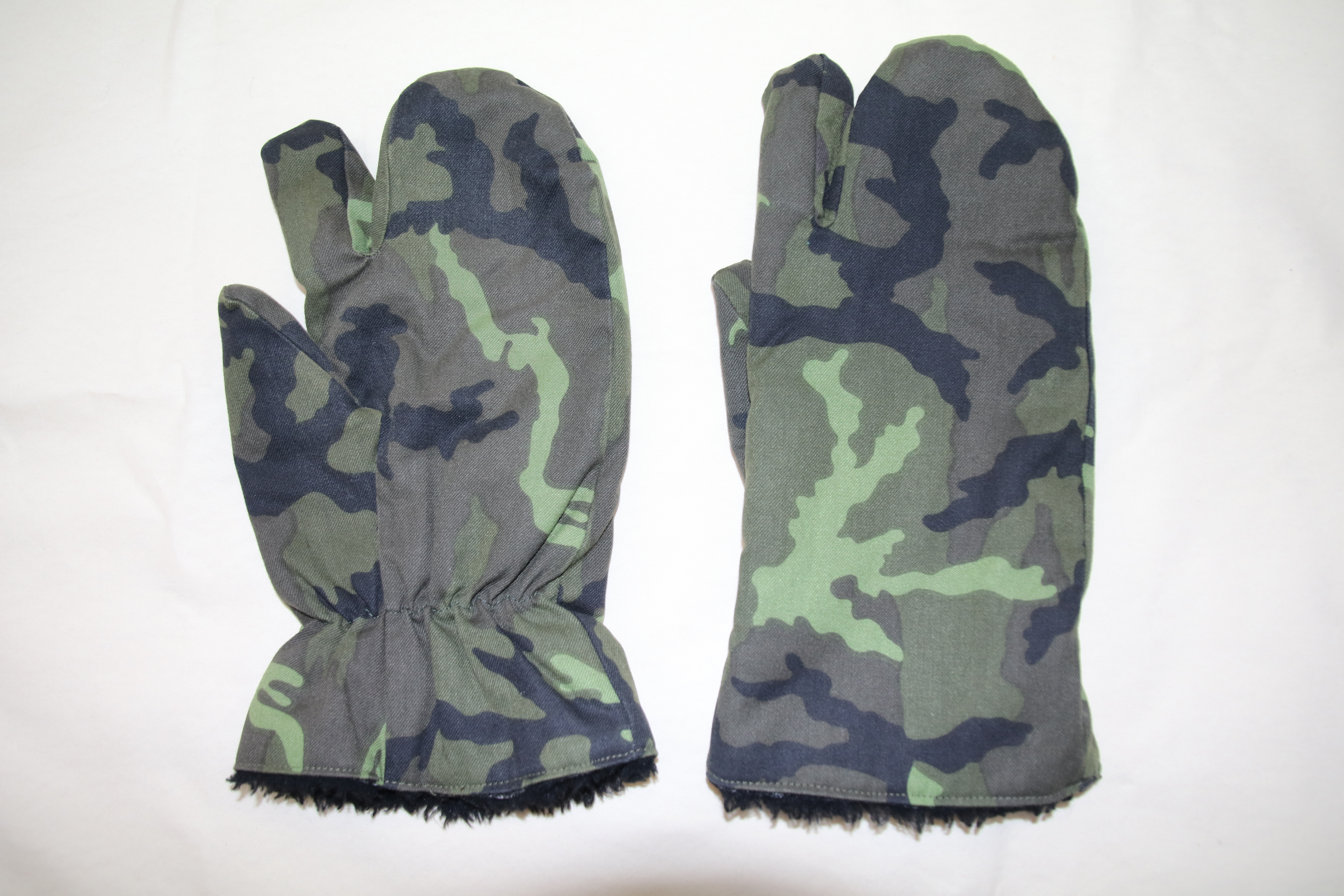 Three finger shooting gloves. Model 1995. Army of the Czech Republic.